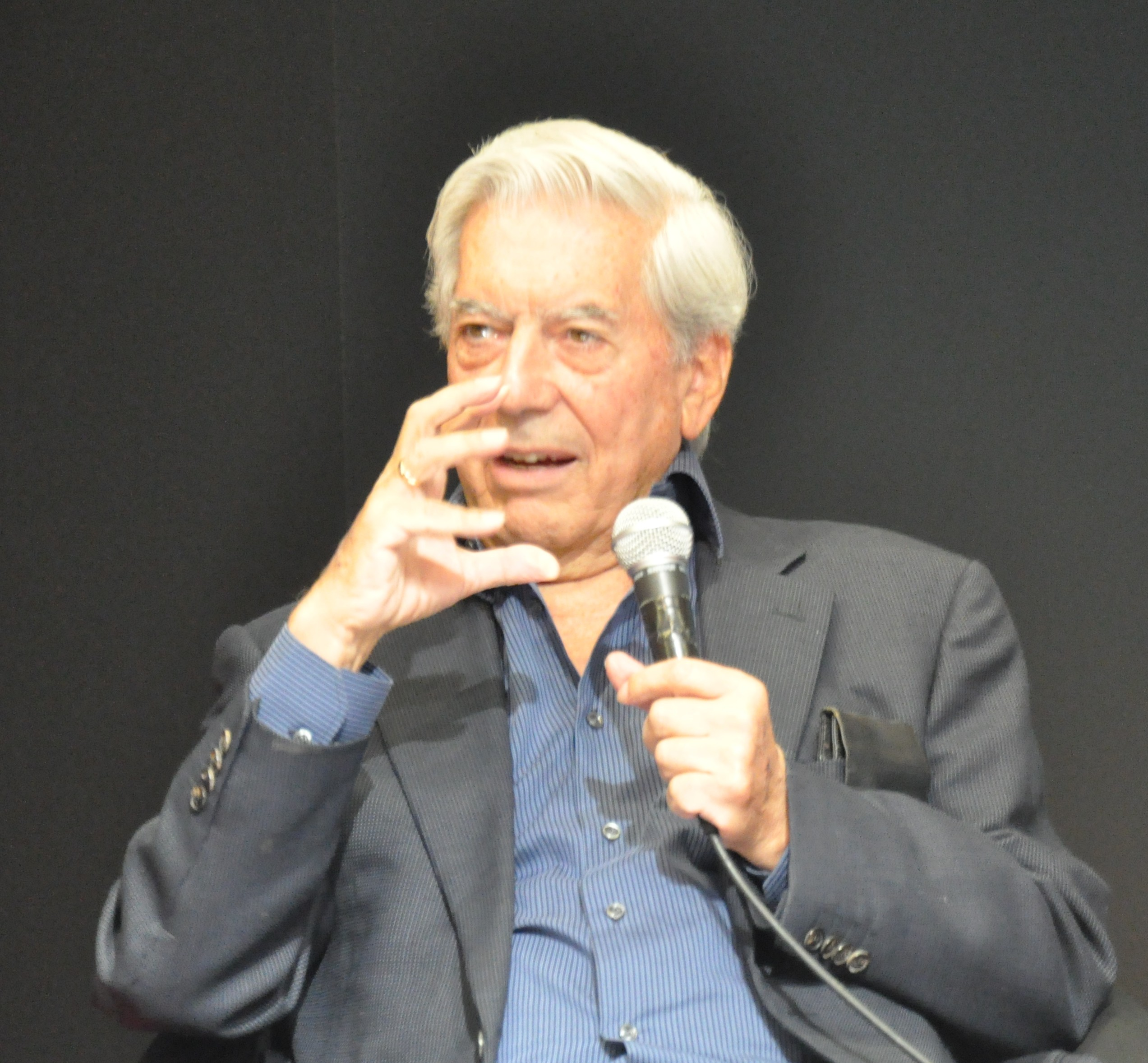 Mario Vargas Llosa at the Göteborg Book Fair 2011